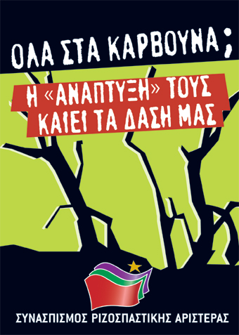 Placard: Their "development" burns our forests